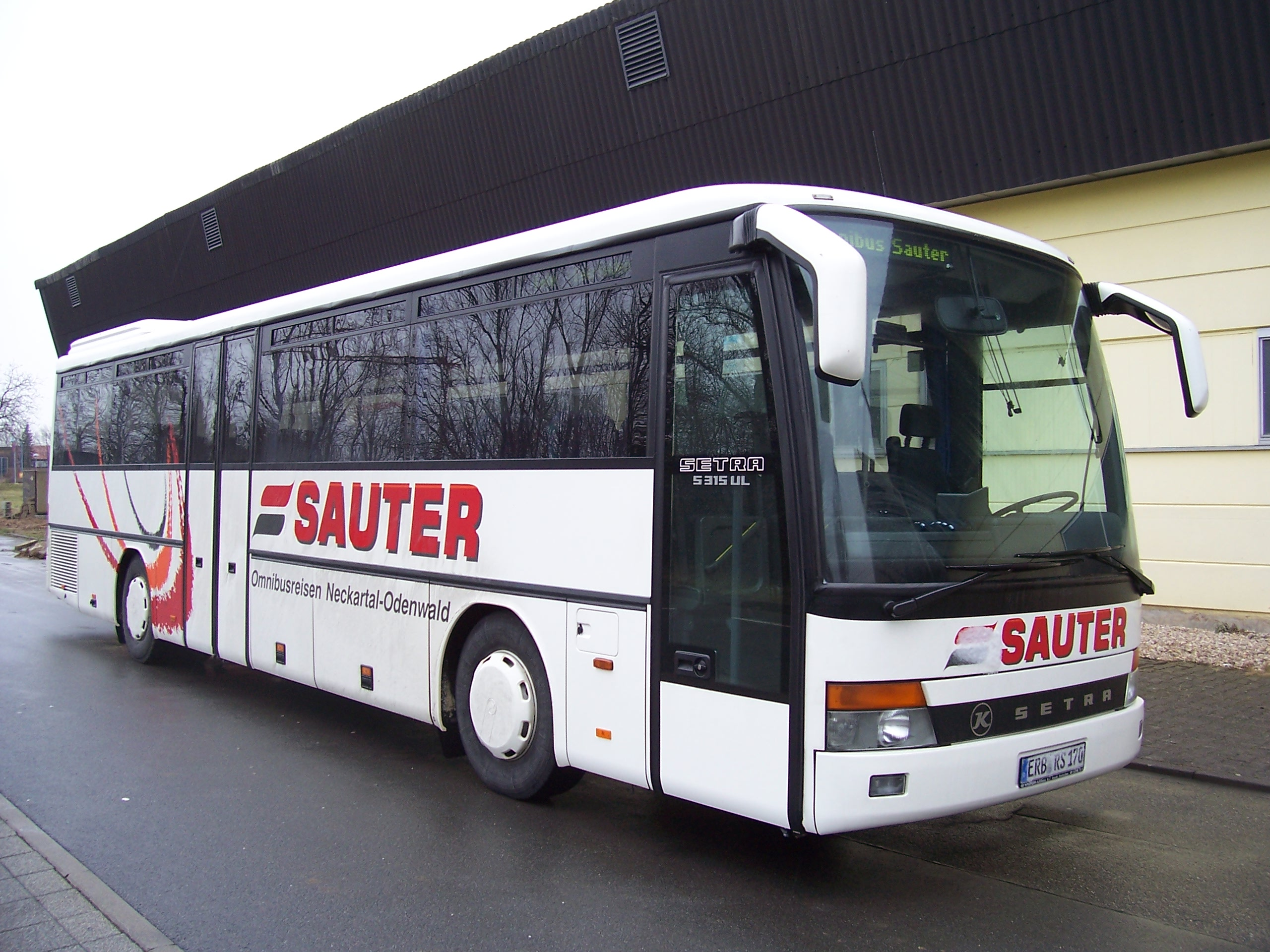 A Setra S 315 UL bus in Viernheim, Germany My own photo